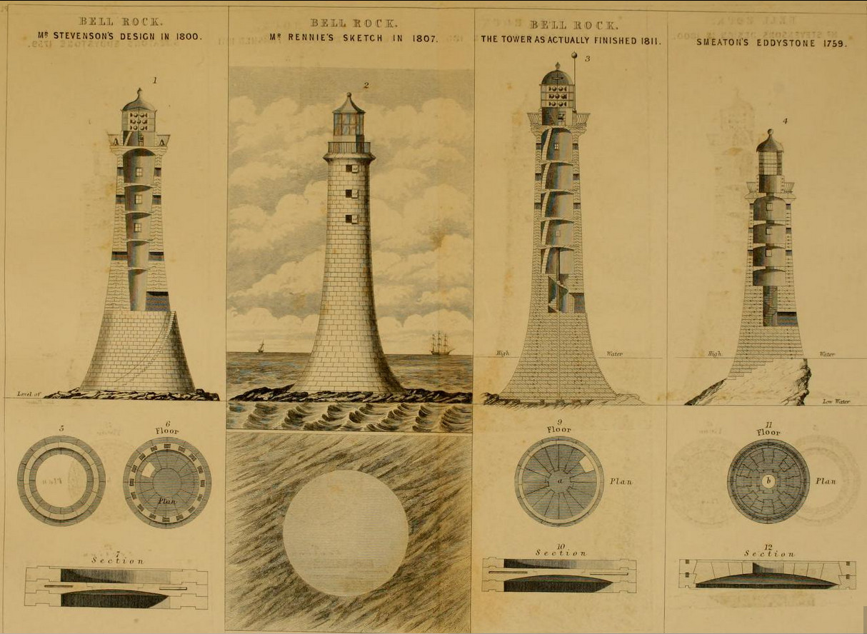 In 1849 Robert Stevenson's son Alan and John Rennie's son, Sir John, were involved in an acrimonious exchange of letters which were reprinted in the Civil Engineer & Architect's Journal concerning who "designed and built" the Bell Rock Lighthouse. This illustration was submitted by Alan Stevenson to demonstrate his father's priority. However the illustration clearly shows Rennie's influence in the shaping of the tower up to the high water level. This was the one influence he himself claimed, never going as far as his son. How far his many letters influenced Stevenson is less easy to determine.